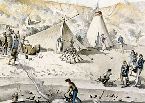 Freycinet's Expedition camp in the Shark's Bay, Australia